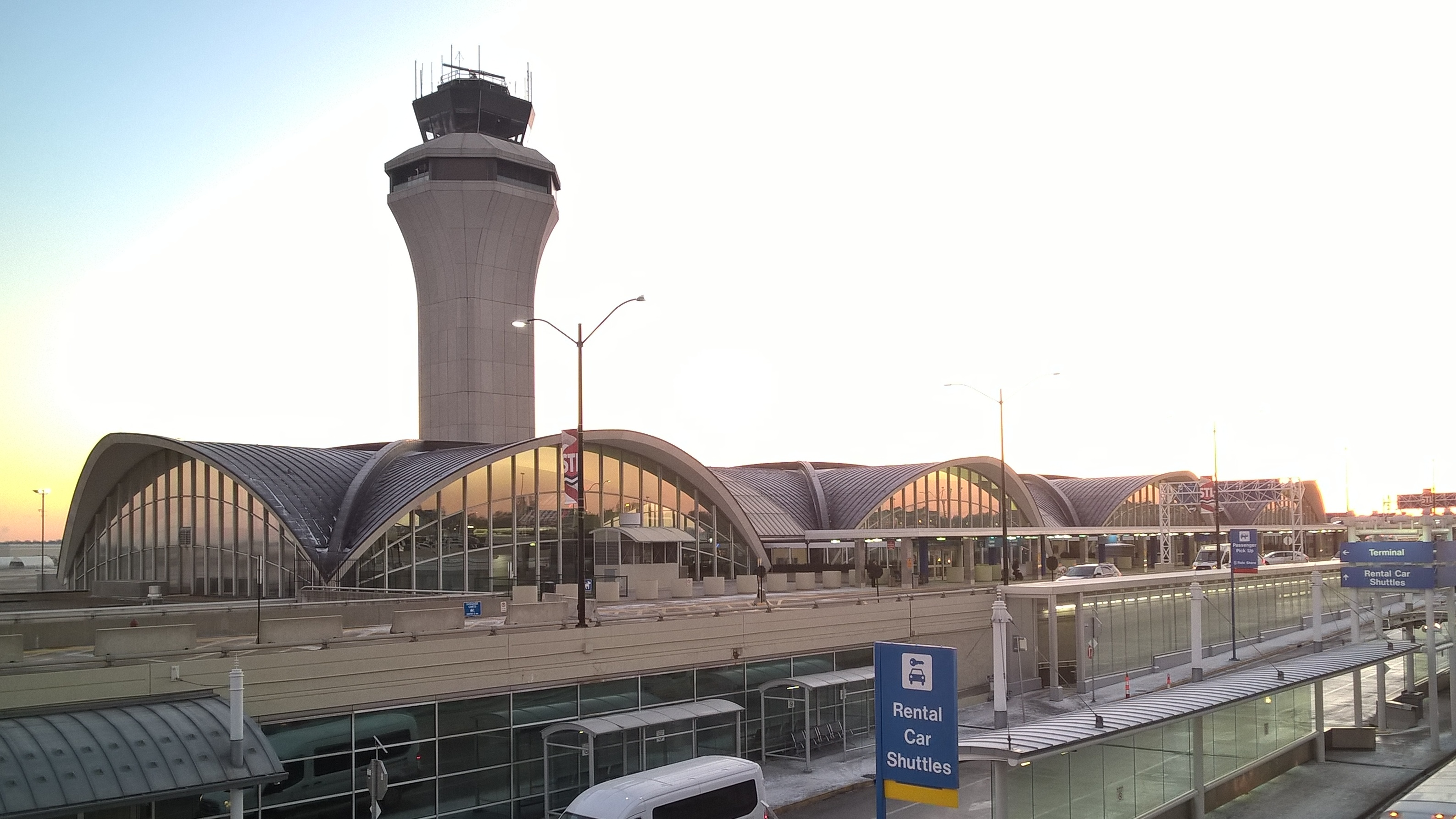 Overview of St. Louis Lambert International Airport T1 from West